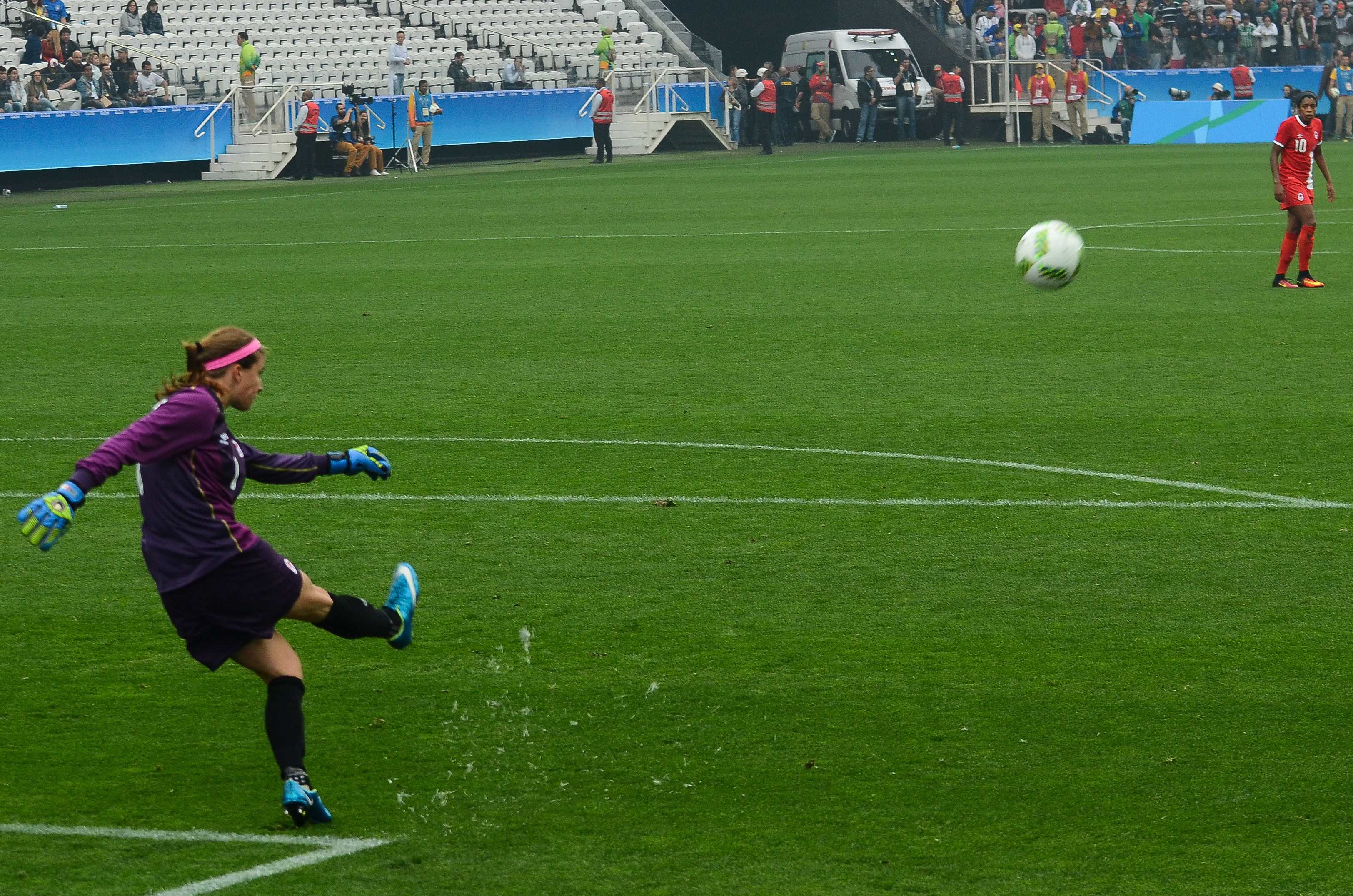 Canada versus Australia at the 2016 Summer Olympics, 3 August 2016.